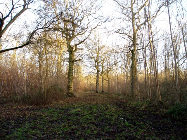 Langley Wood. An interior view of this deciduous wood of around 100 acres.